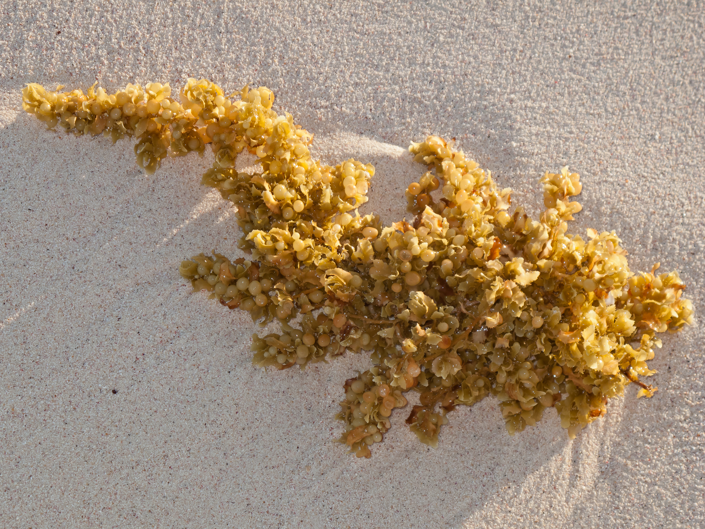 Algae. Beach of the Bahia Principe hotel, Quintana Roo, Mexico